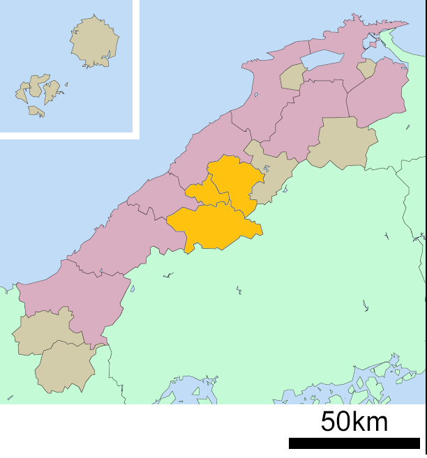 Ochi district in Shimane prefecture